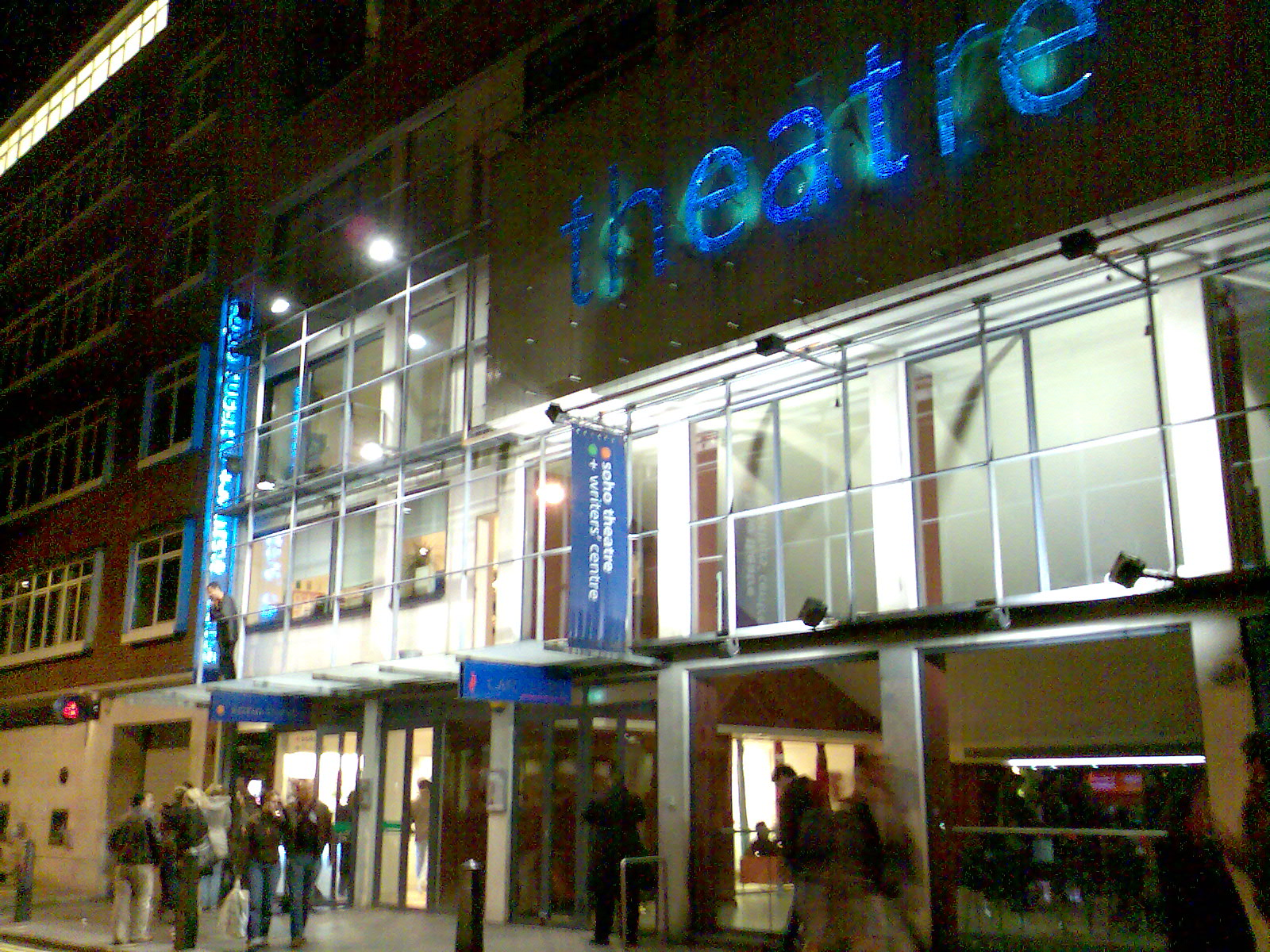 November 11, 2006. Just after a performance there by Omid Djalili.